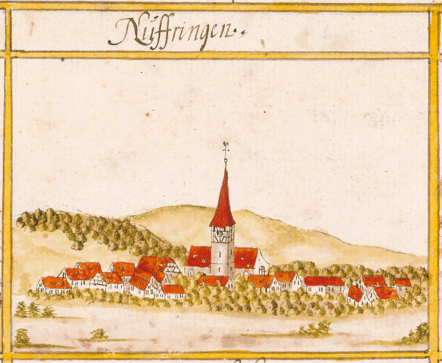 View of Nufringen from the forest register books created by Andreas Kieser